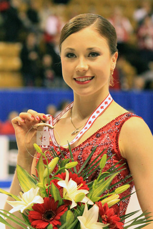 Laura Lepistö at the 2009 Skate Canada International.